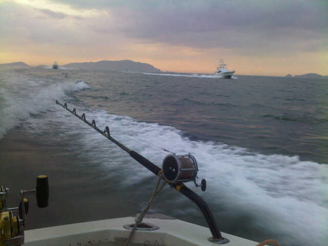 Second fishing tournament in Anzoategui Venezuela 2011, Borraccha island. Photo taken from the boat Argonauta